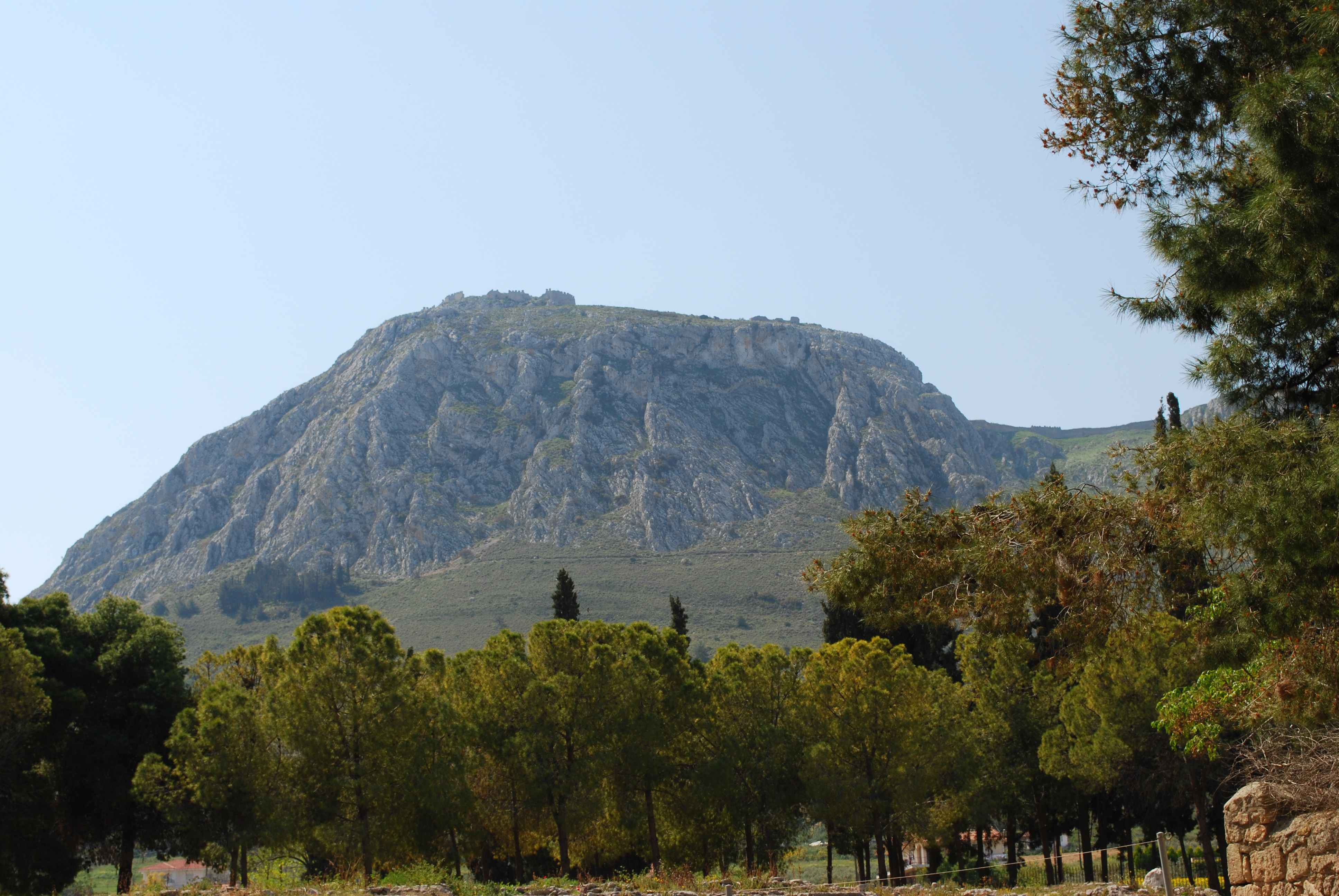 The Acrocorinth.